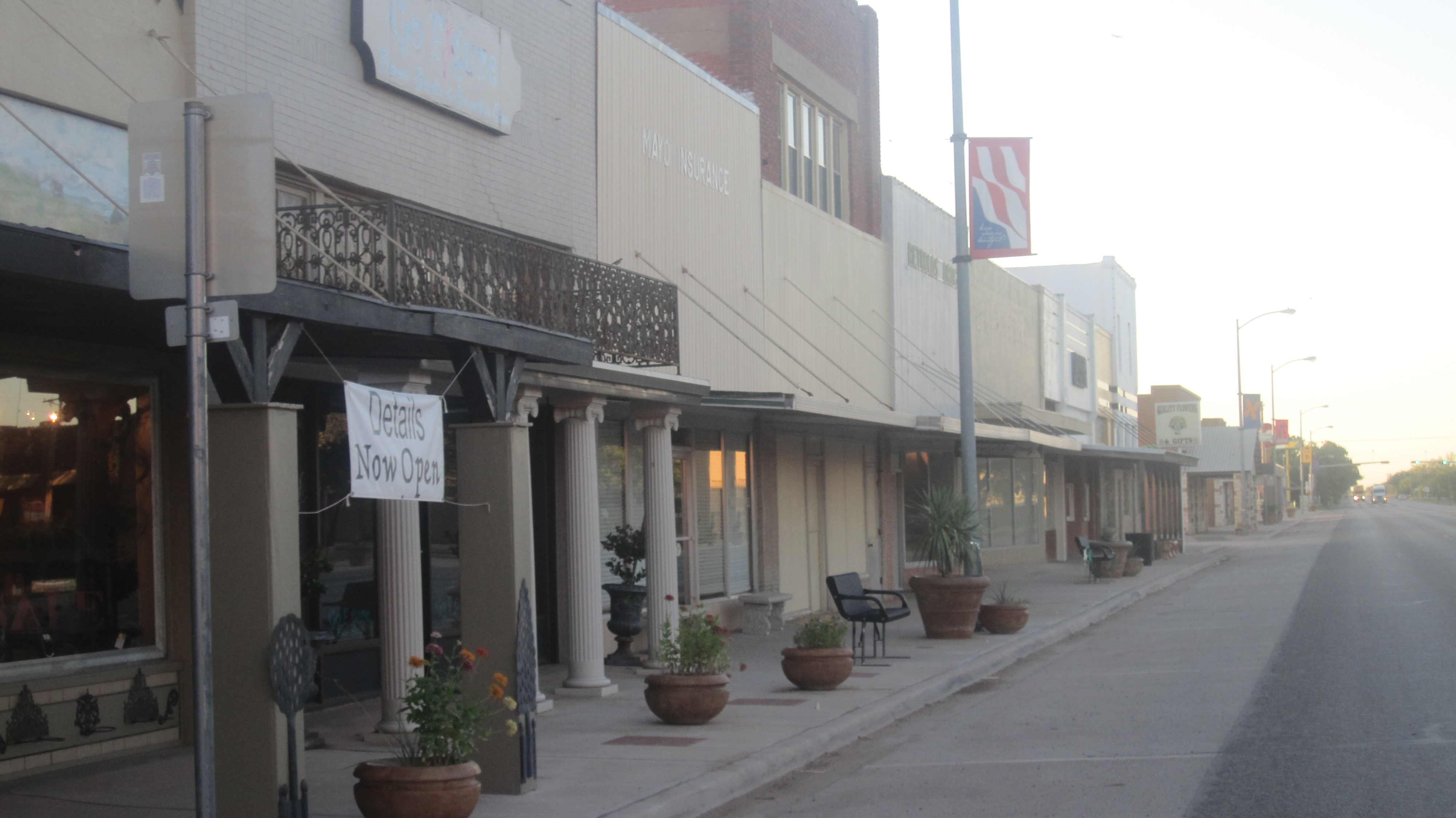 I took photo with Canon camera in Hamlin, TX.